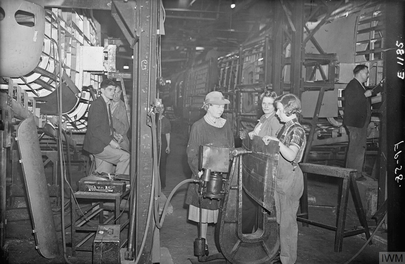 Famous Artist's Studio in a Bomber Factory Dame Laura Knight watches Mrs Gertrude Frecklton Mrs Betty Williams at work on a dimpling machine.